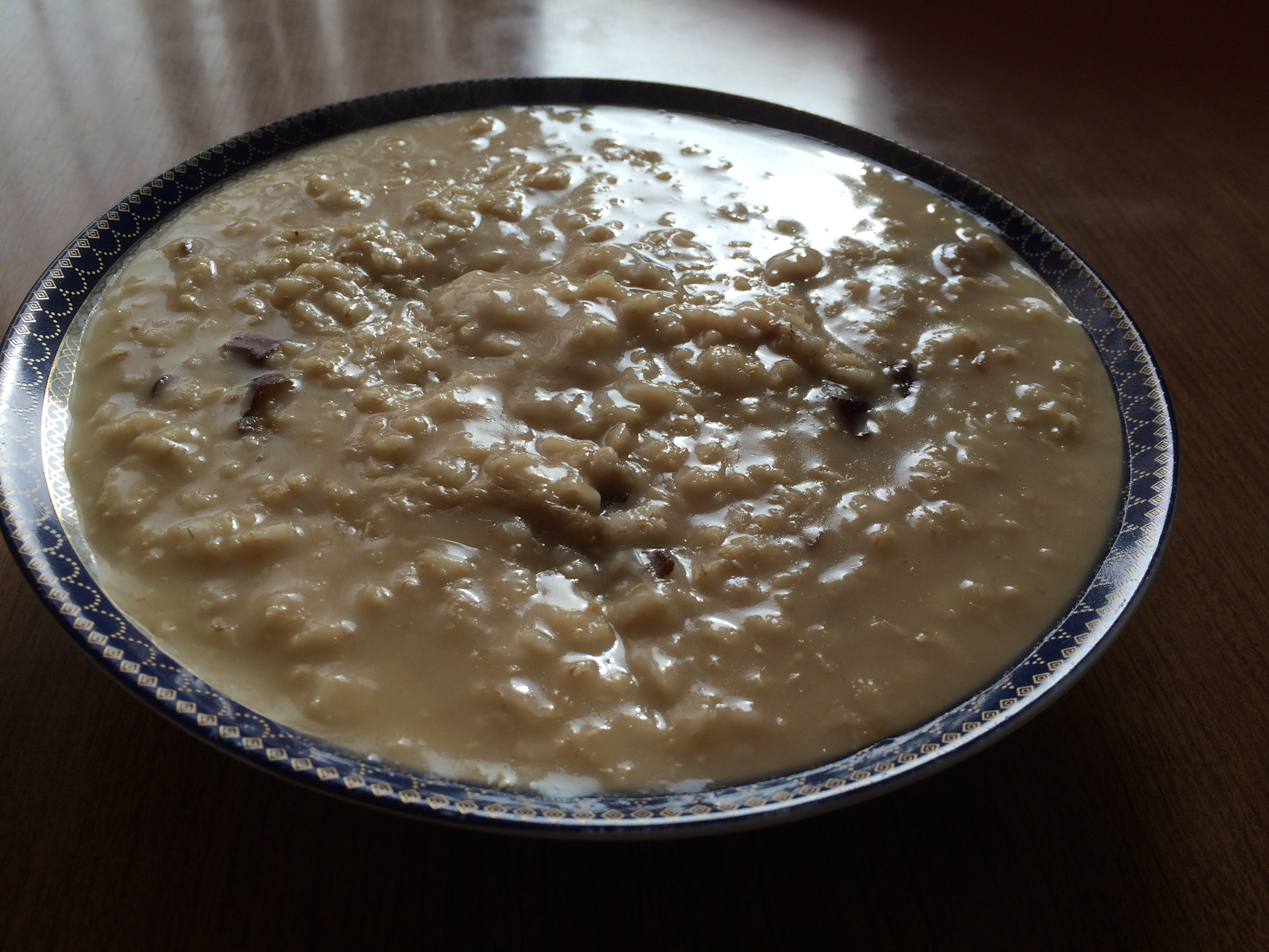 A dish of oatmeal porrridge.